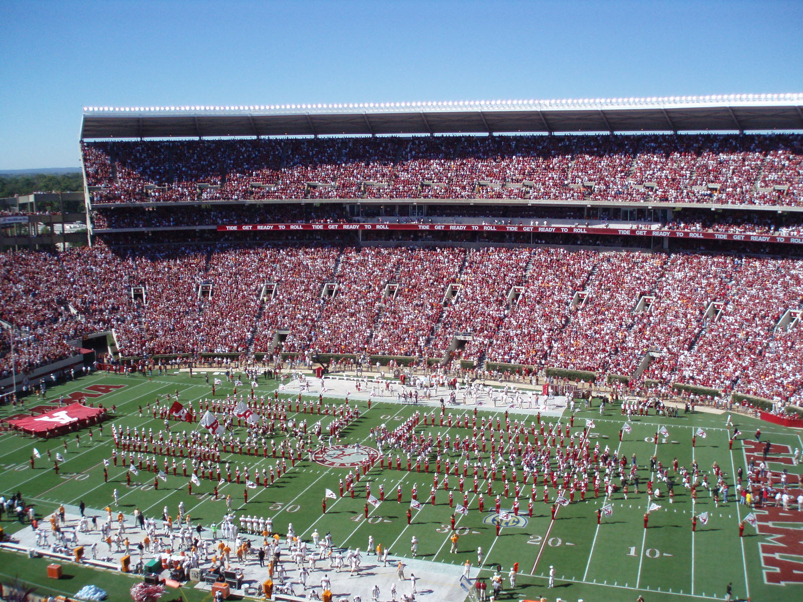 The west side of Bryant-Denny Stadium.